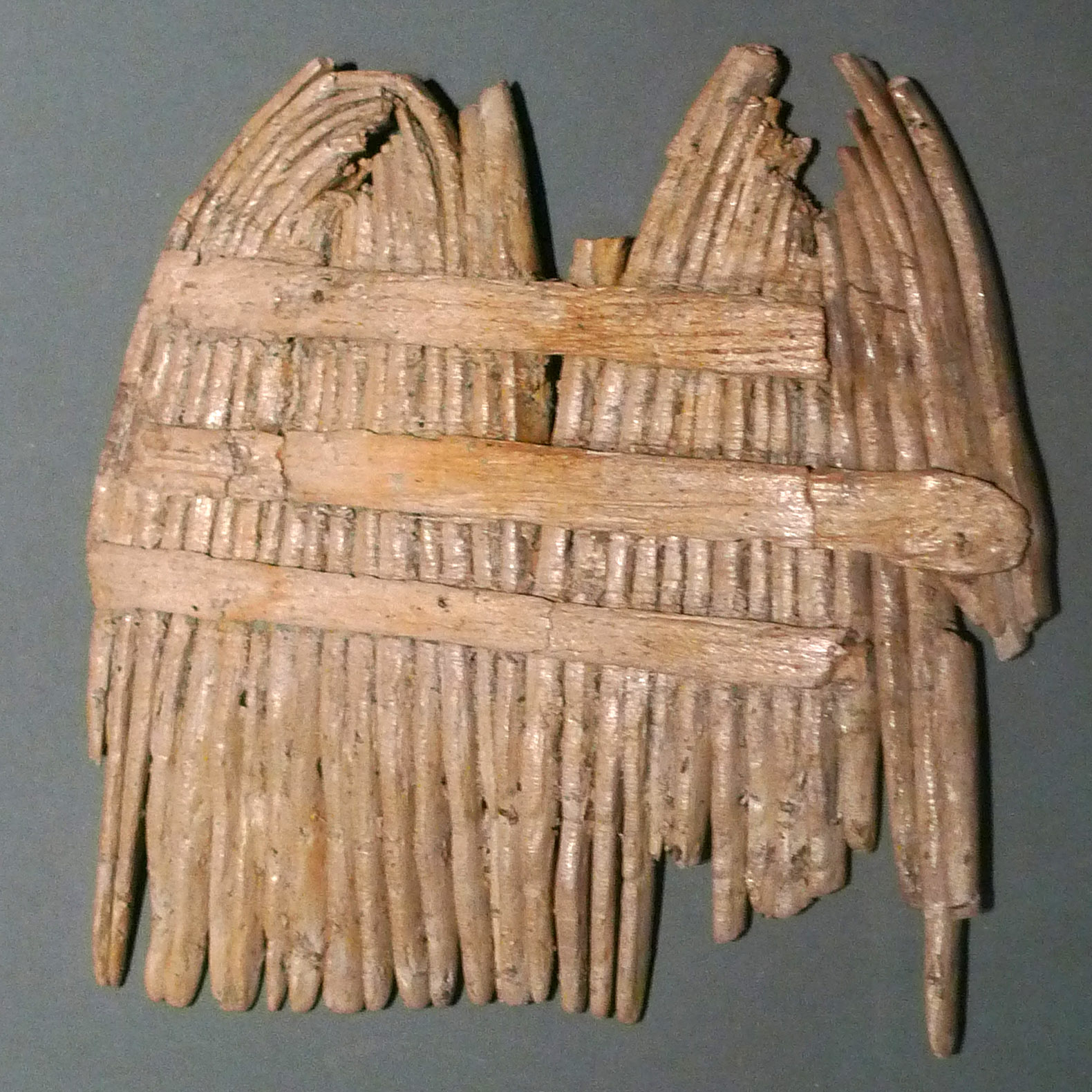 Neolithic nit comb, Canton of Bern (Switzerland).